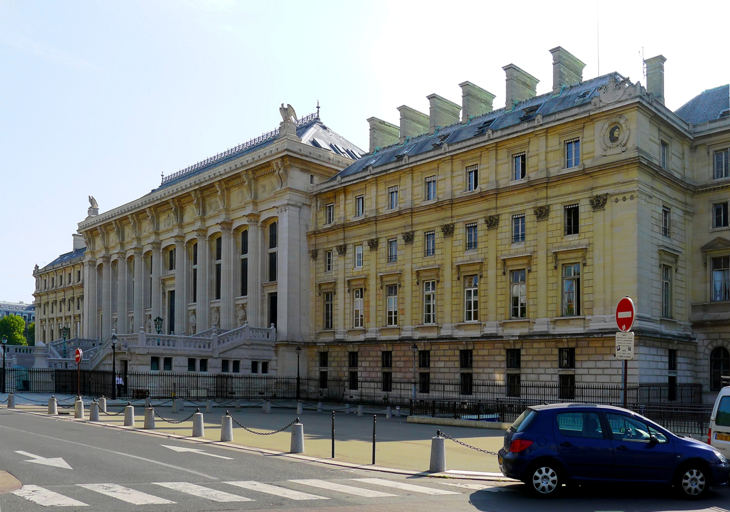 Harlay street - Paris